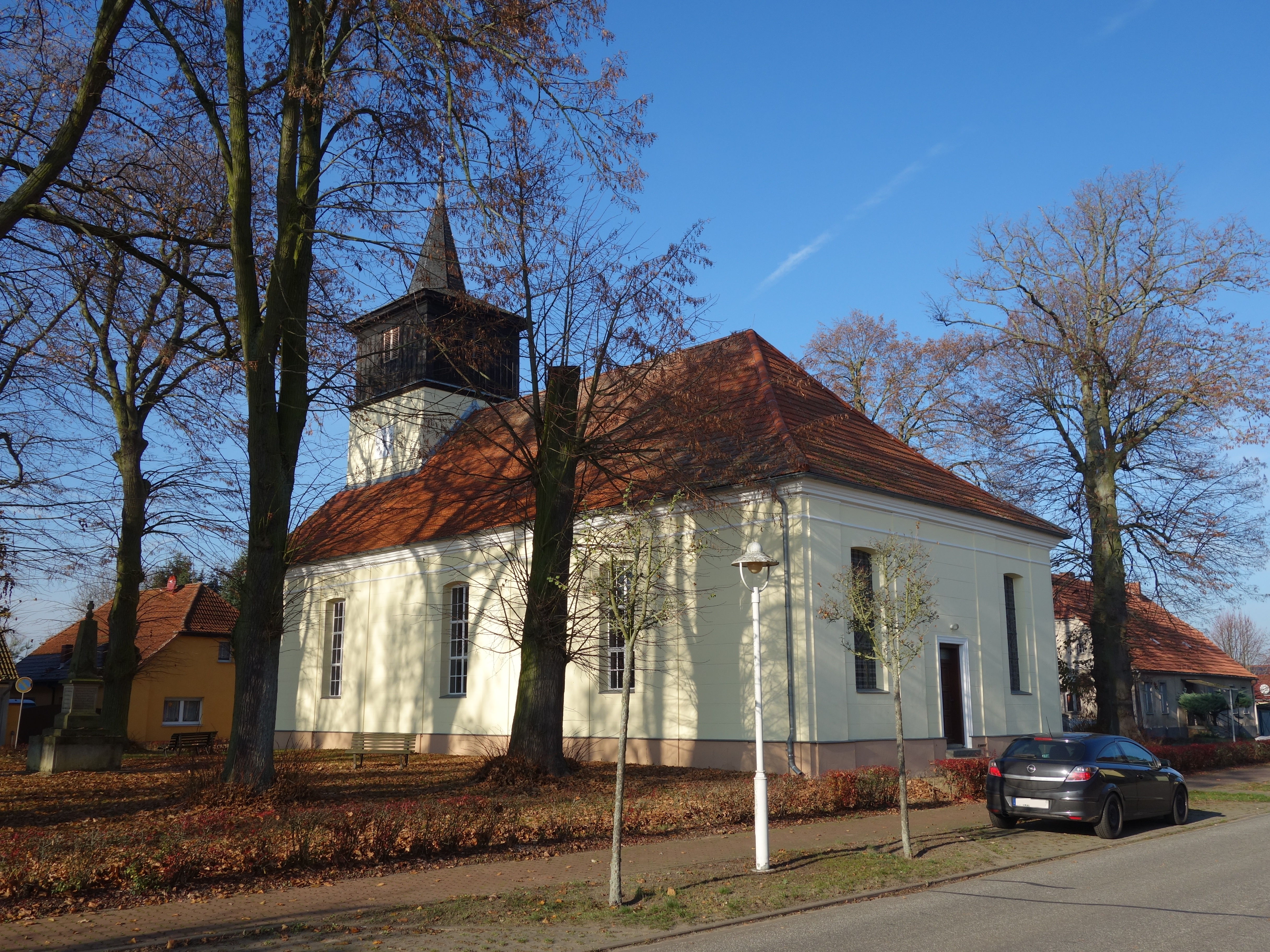 South-eastern view of church in Dreetz municipality, Ostprignitz-Ruppin district, Brandenburg state, Germany